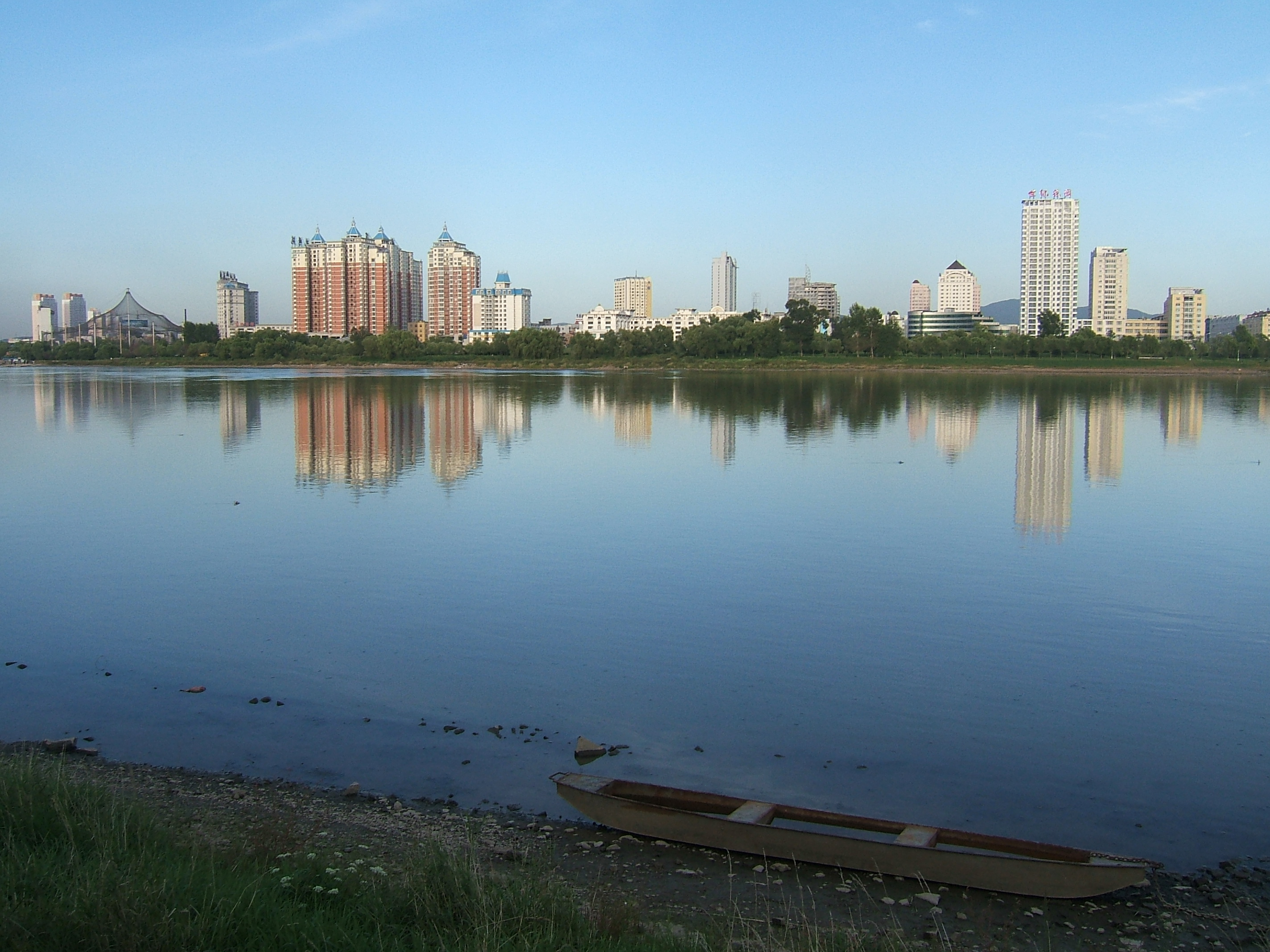 The small town of Jilin, on the river Songhua.